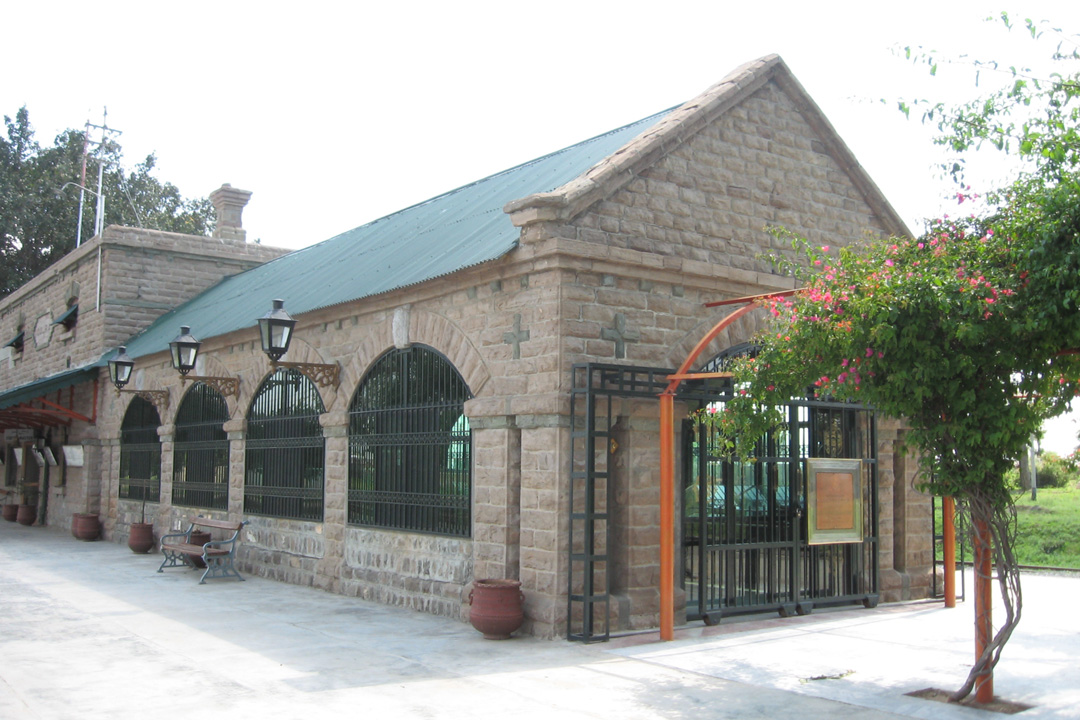 Main Hall, Golra Sharif Railway Museum, Islamabad, Pakistan